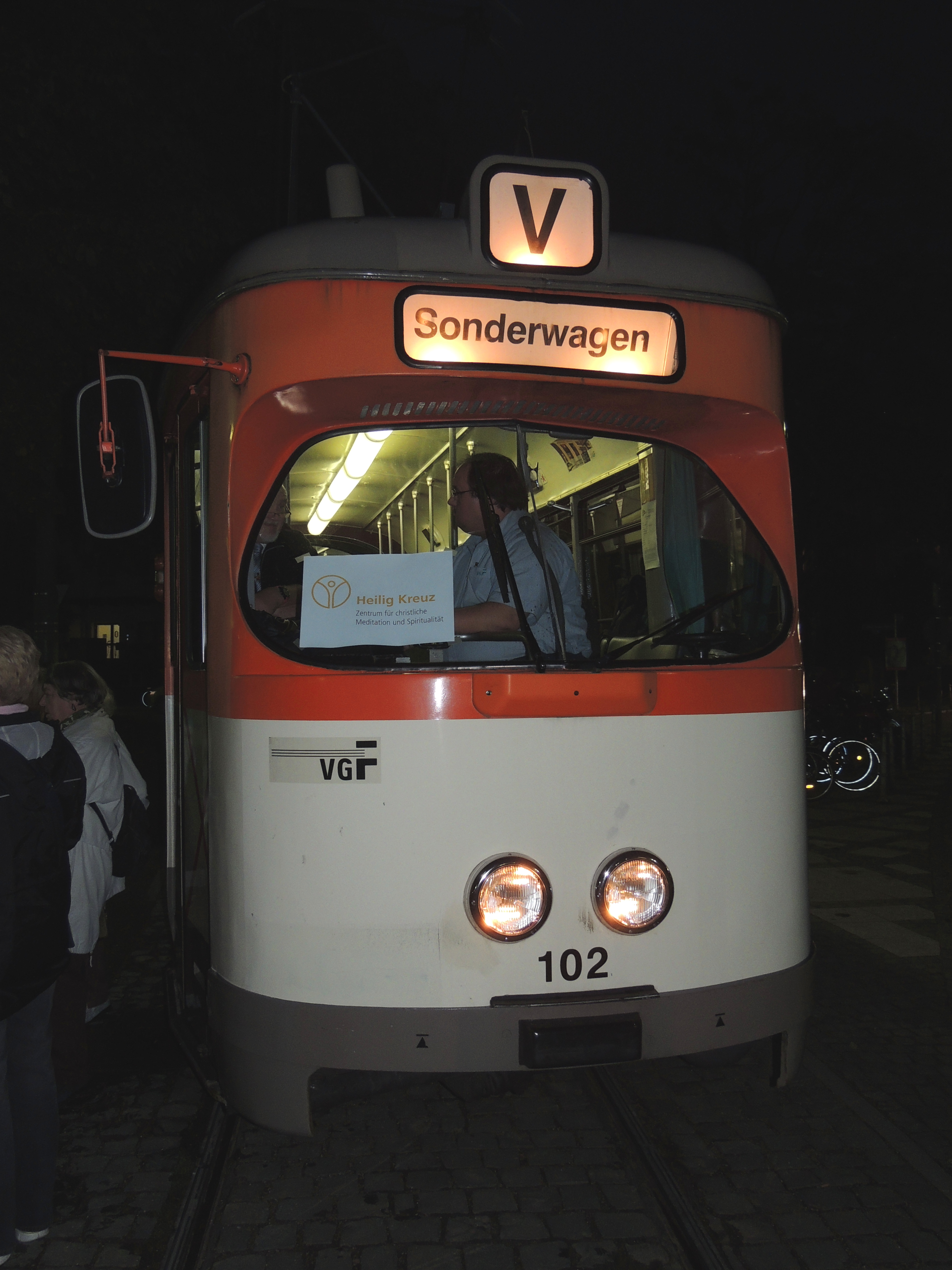 Tramway at Frankfurt am Main: Driver's cab of VGF type M railcar 102 (602) as "Tram of silence" of the Centre for Christian Meditation and Spirituality of the Diocese of Limburg Holy Cross in Frankfurt-Ostend, tram stop Zoo, September 12th, 2013